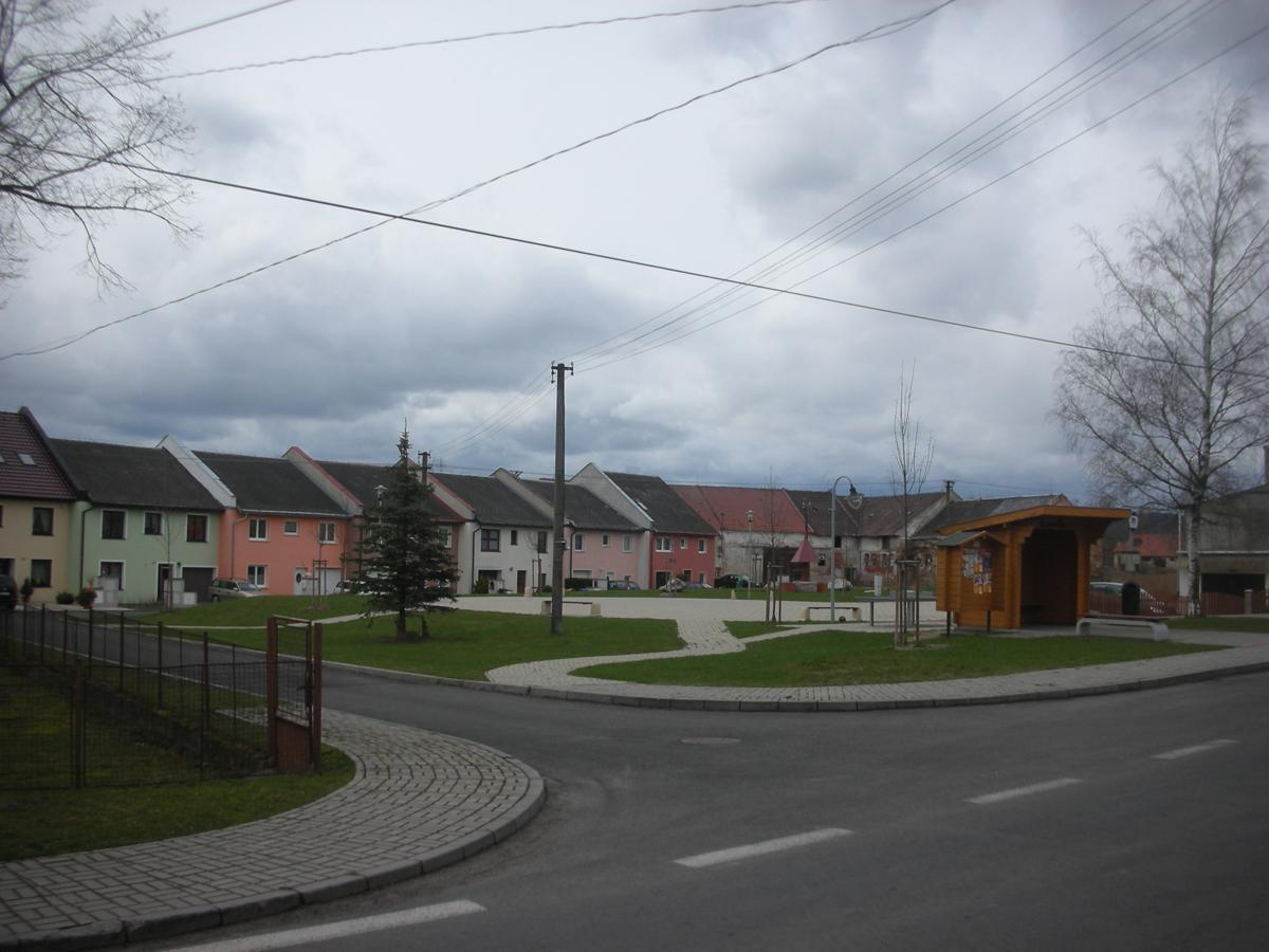 Village Square in Křižovatka